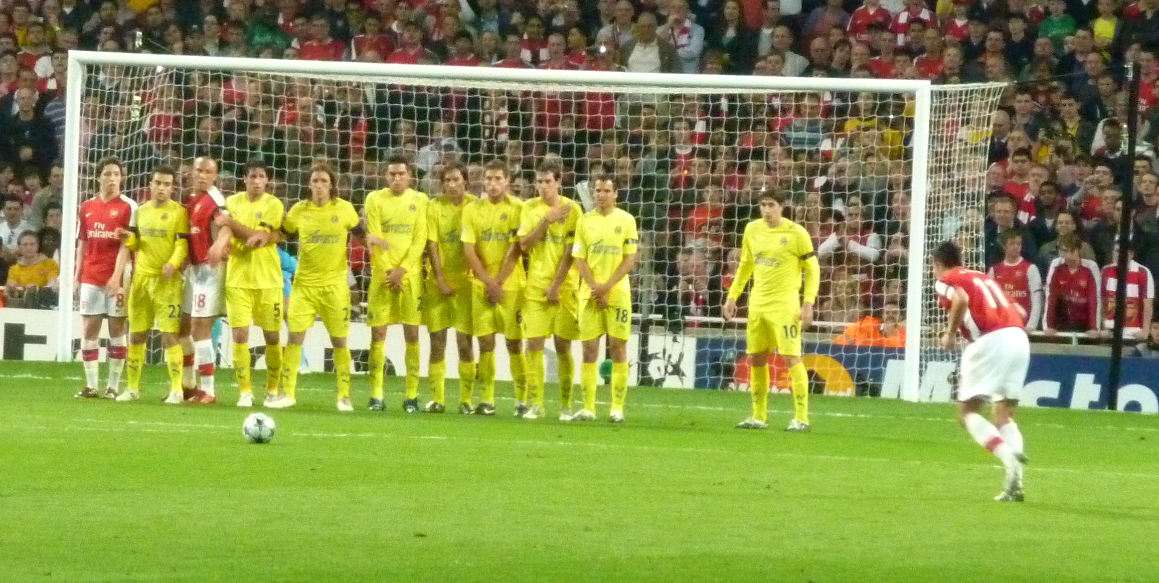 Van Persie Free Kick, on a Champions League Arsenal FC vs Villareal CF match